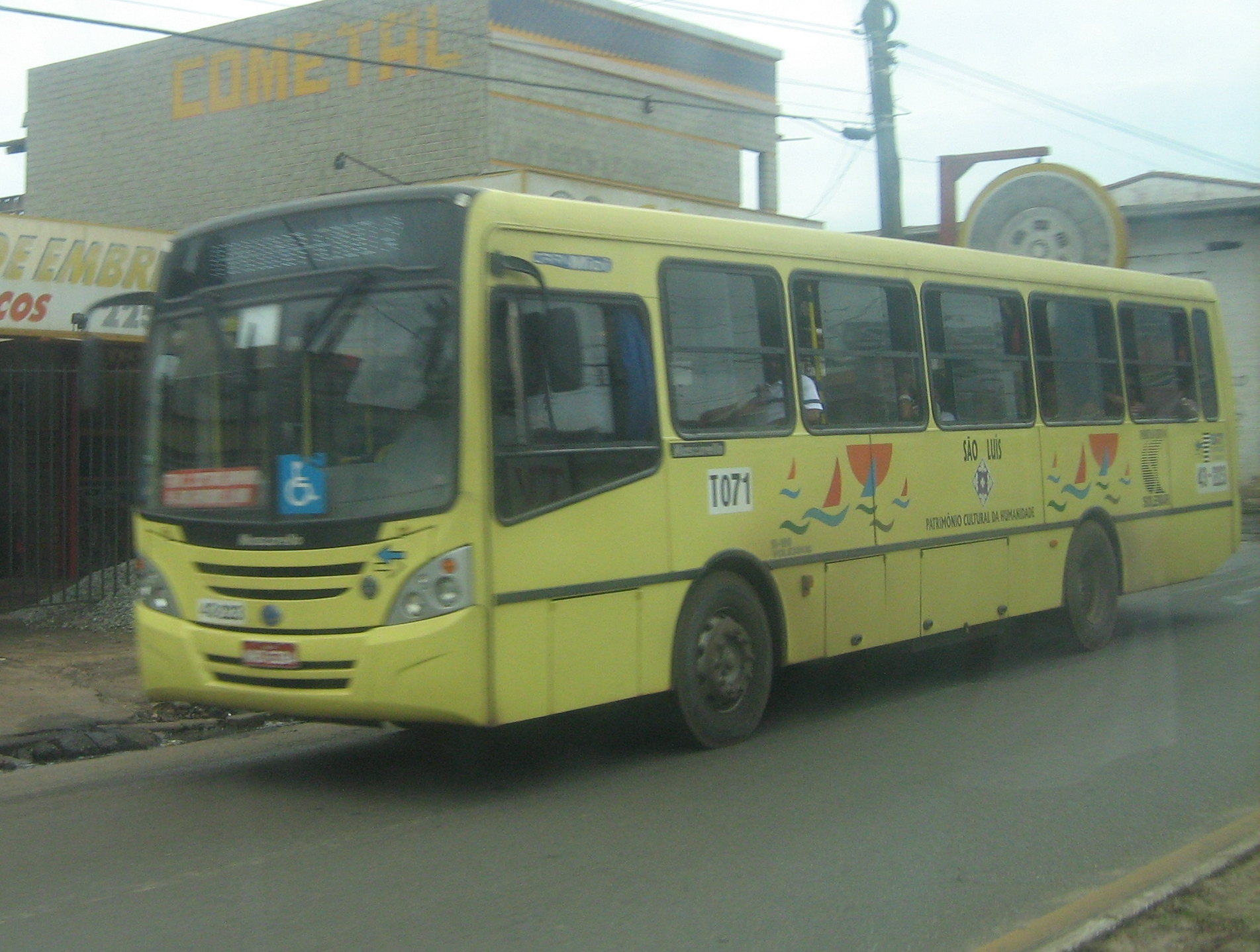 Mascarello bus with Volkswagen Volksbus chassis in São Luís, Maranhão, Brazil.